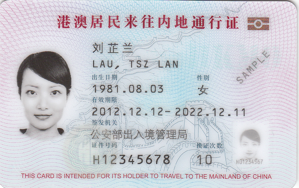 Sample of the front of a New ‘Home Return Permit’ (Chinese: 港澳居民來往內地通行證